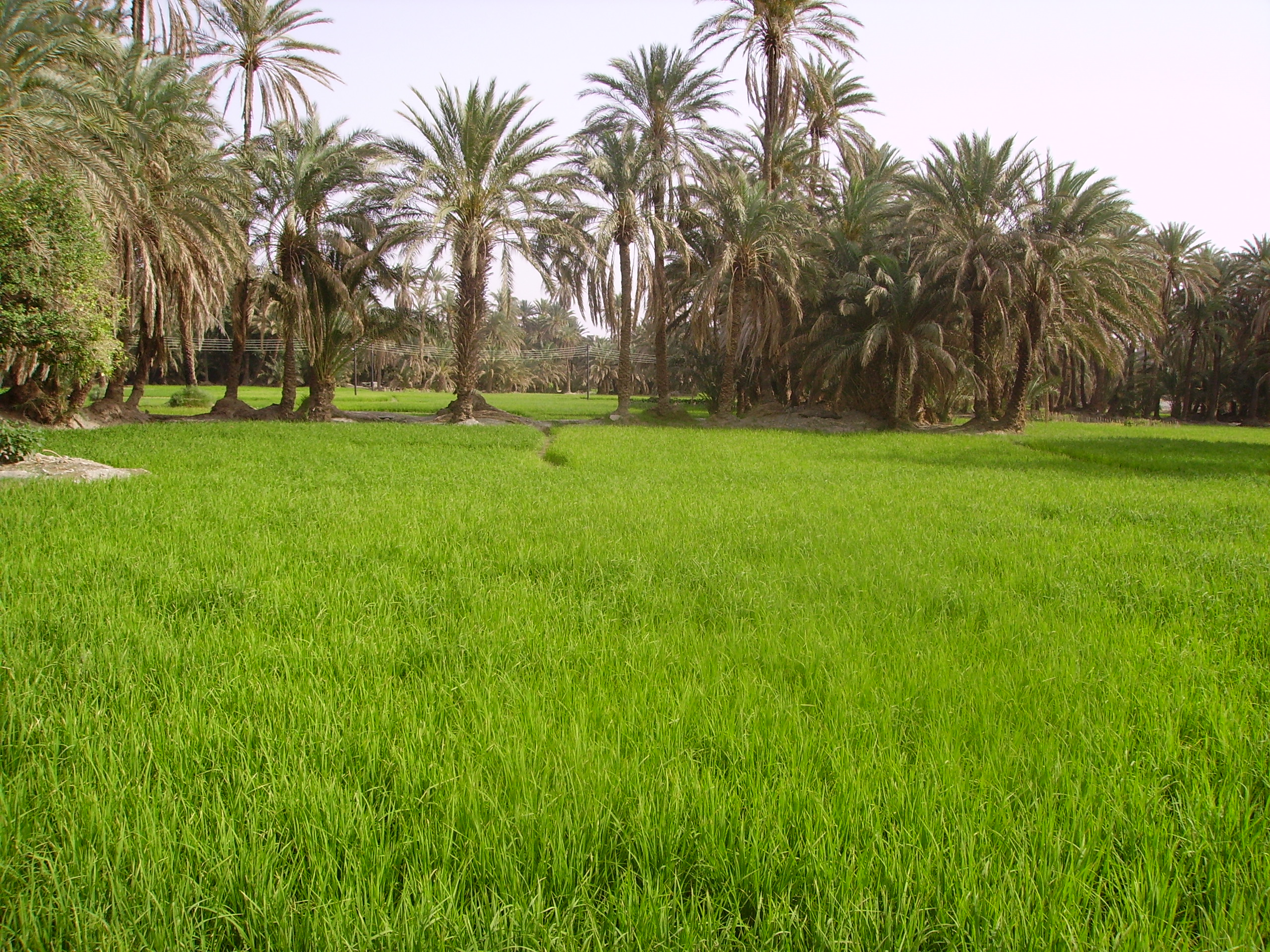 جالق و نخلستان